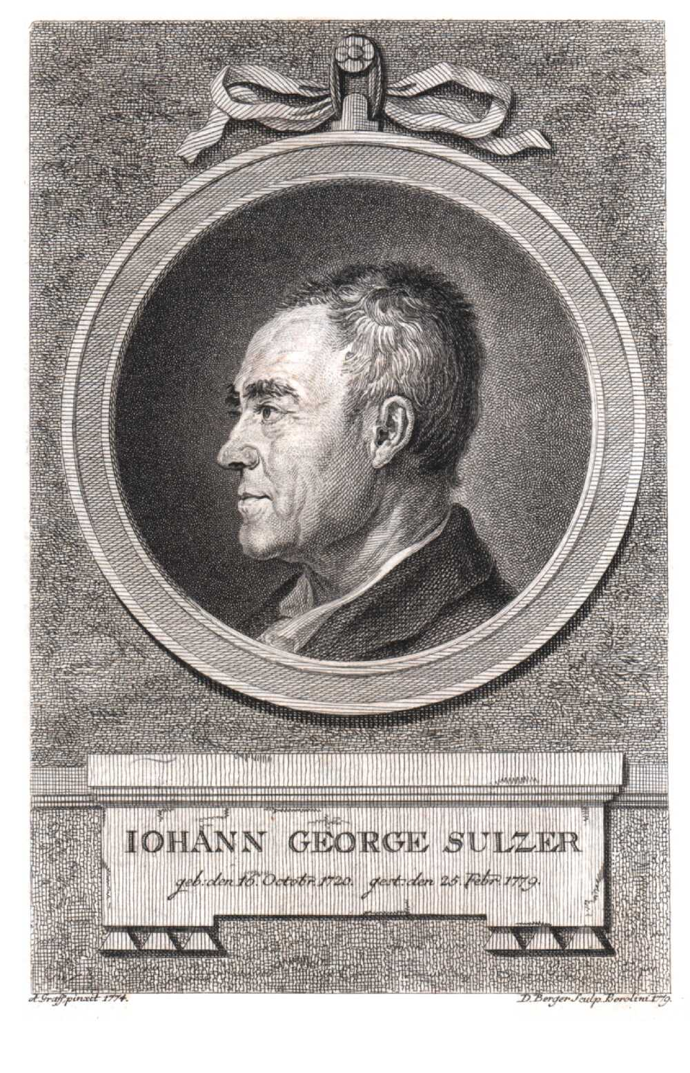 Depicted person: Johann Georg Sulzer